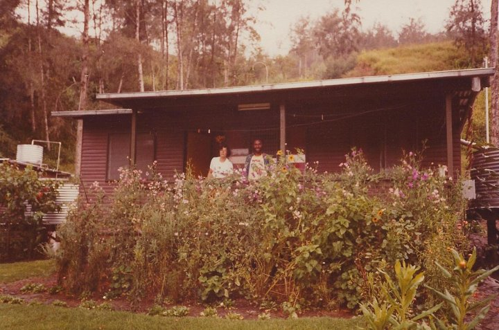 Staff house with staff at a rural secondary school in Ambum Valley, north of Wabag